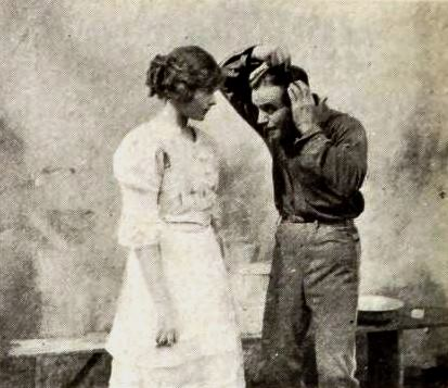 Still from the American comedy drama film Arizona (1918) with Marjorie Daw and Douglas Fairbanks, on page 20 of the November 23, 1918 Exhibitors Herald.